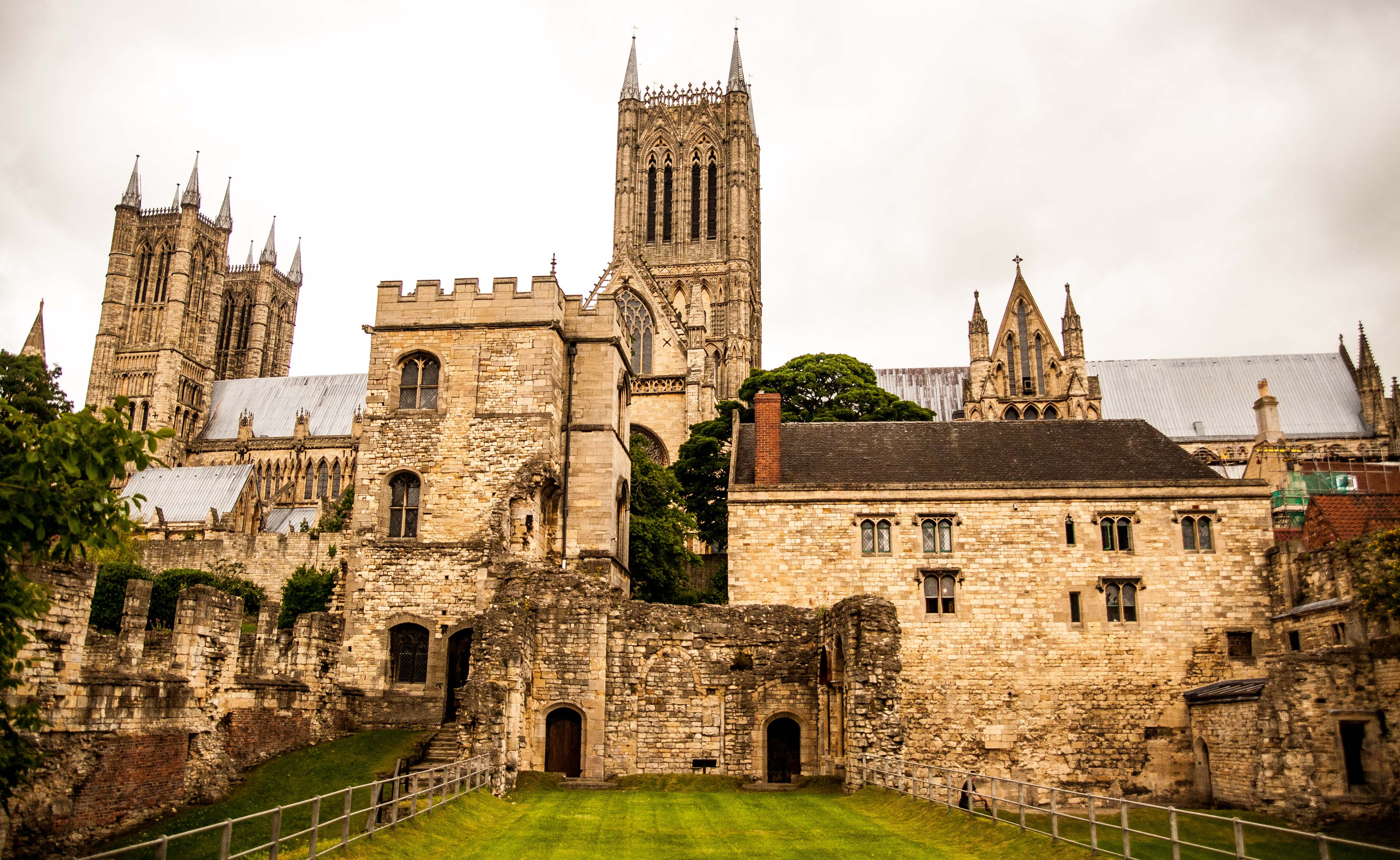 The Bishops Palace owned by English Heritage in the background is Lincoln Cathedral